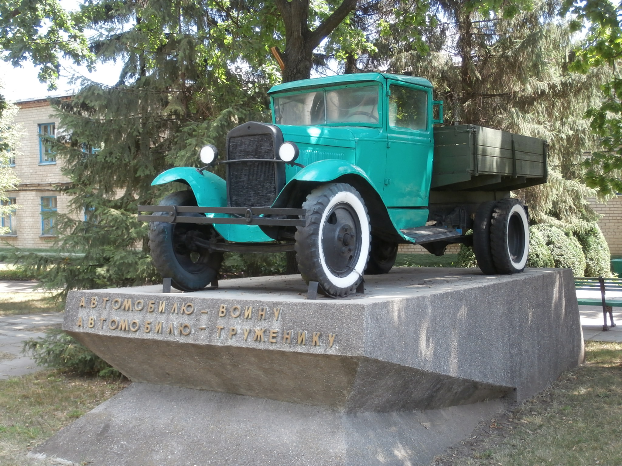 Memorial of a GAZ-AA truck in Zhovti Vody